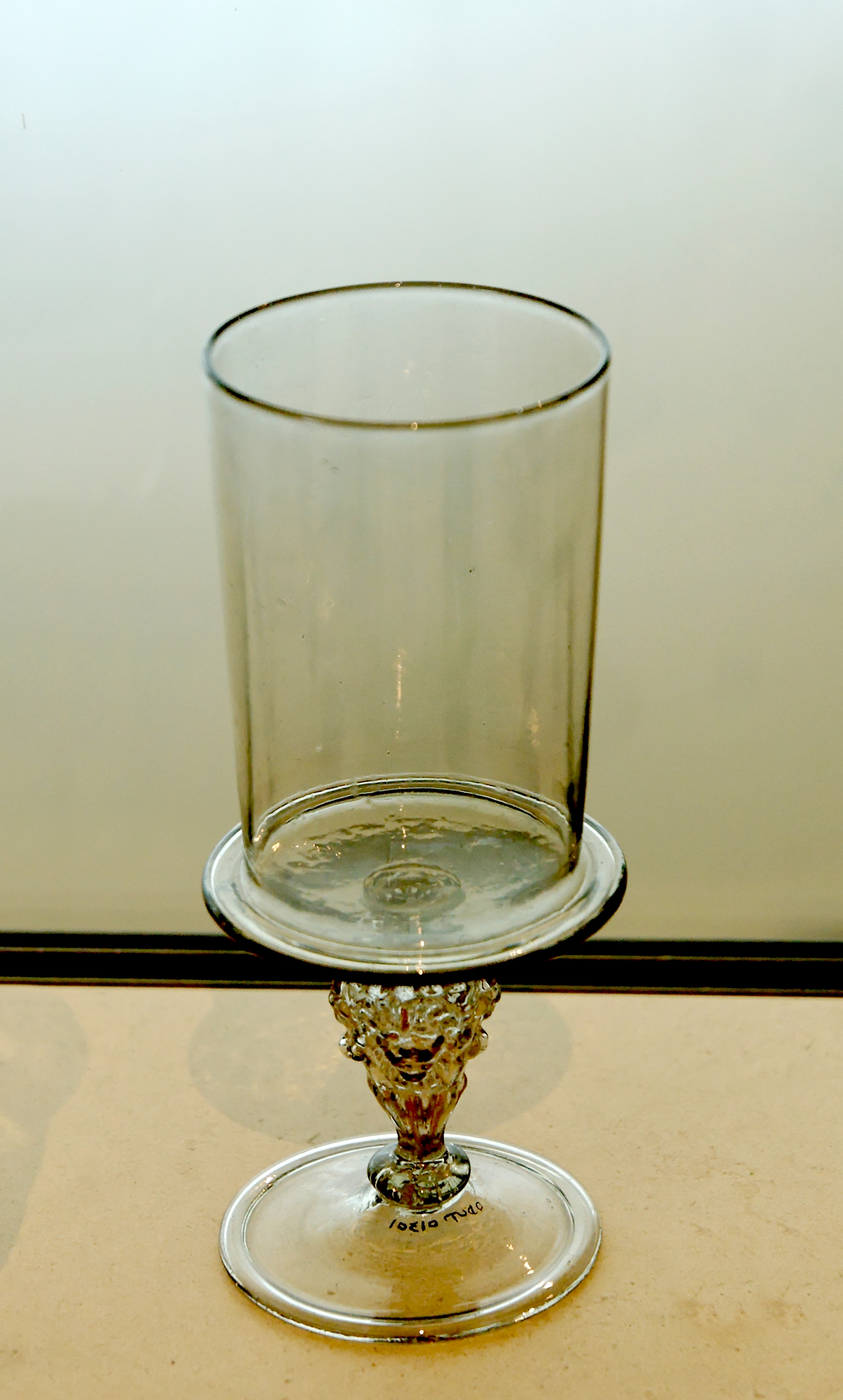 Baluster glass with lion-mask stems. White water glass and gold, Venice (or Venetian manner), late 16th century–early 17th century.